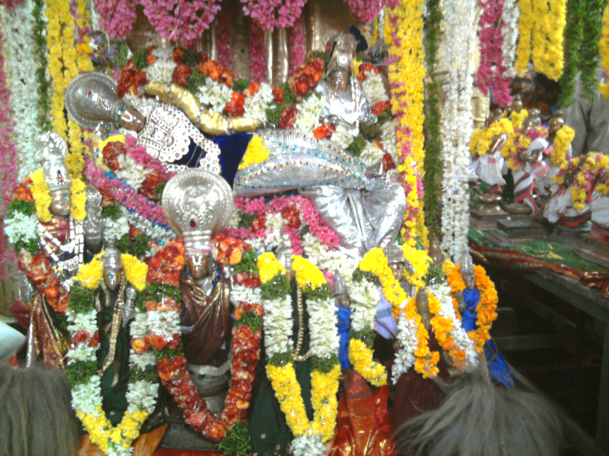 Prasana Venkateswara swami idol